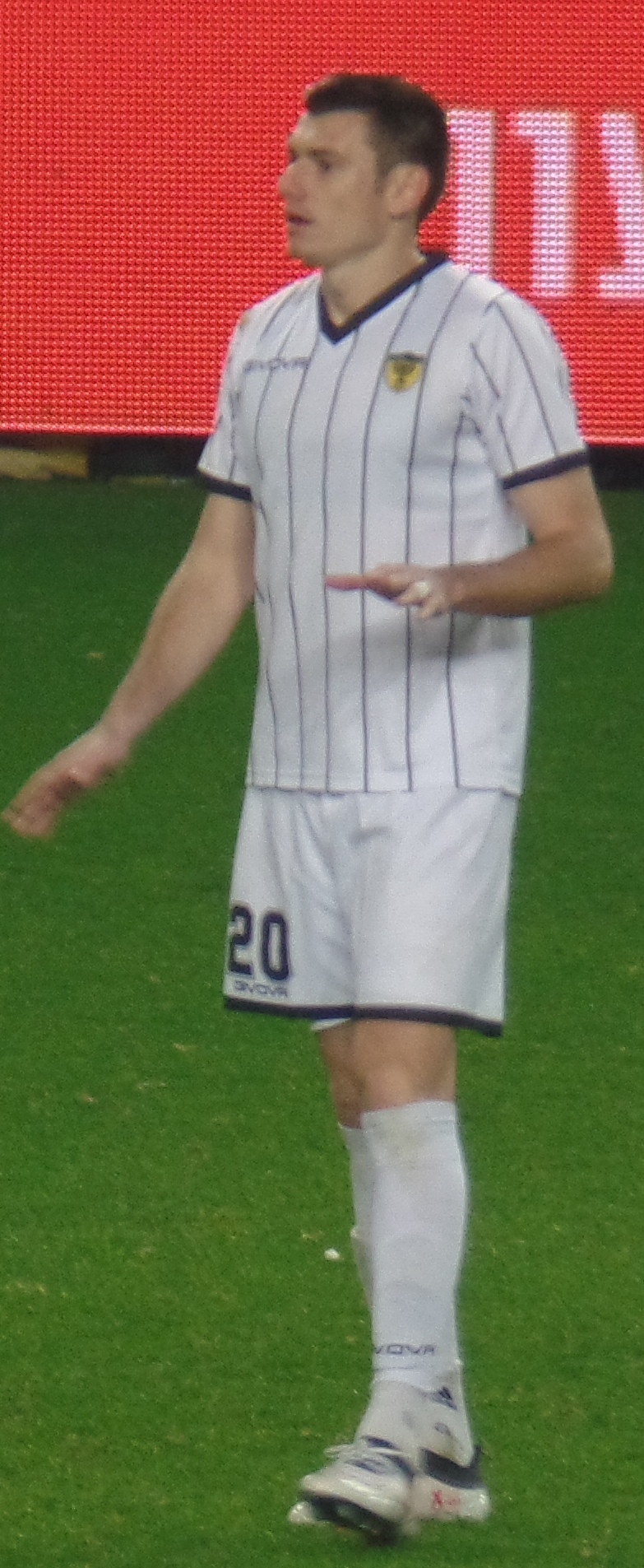 Miki Siroshtein SAMSUNG CAMERA PICTURES